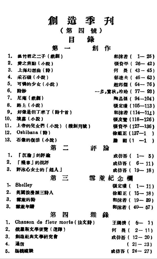 "Creation Quarterly" is a literary journal at the core of the development of modern vernacular Chinese language. The people associated with it were active in the May 4th language movement. First published in December of 1923. Table of contents.